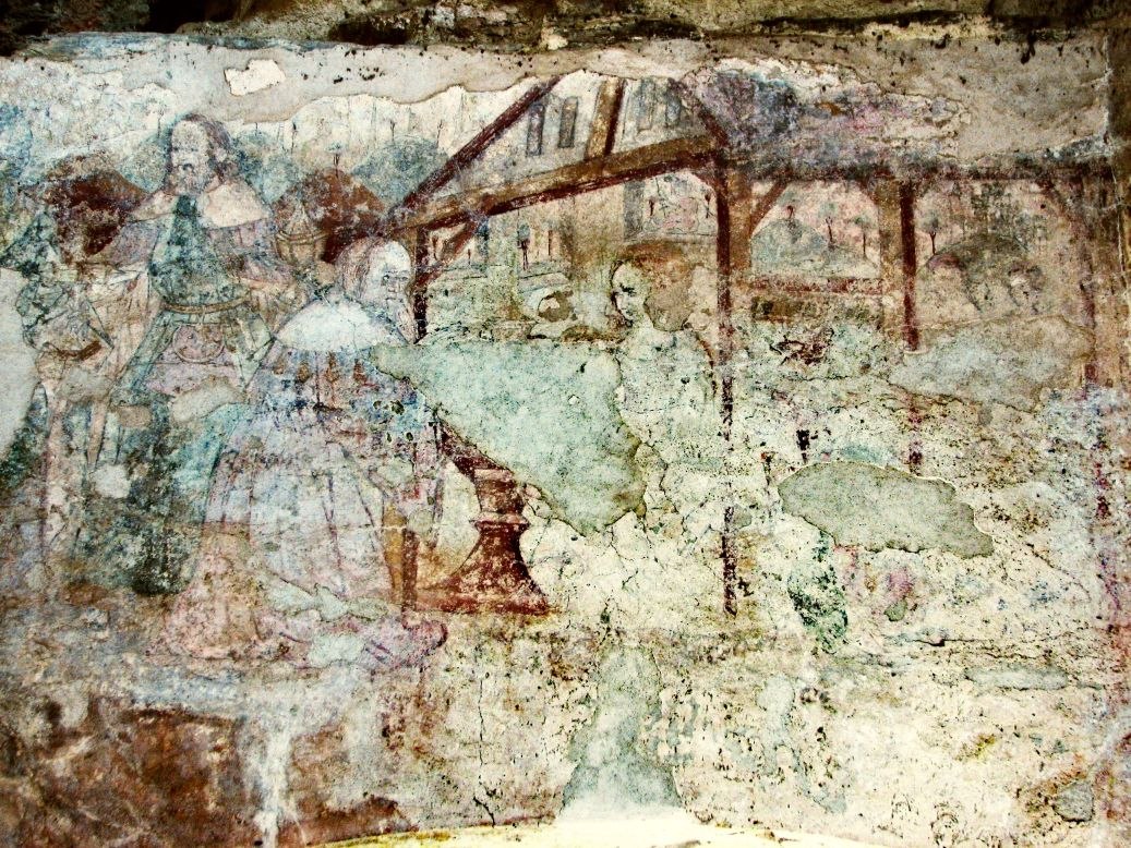 The wall painting at Berry Pomeroy Castle, Devon, England. Considerably enhanced to bring out the faint details.